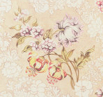 Floral design for a Spitalfields woven silk featuring peonies, lilies, and roses